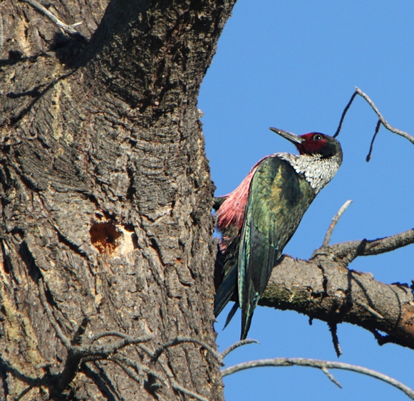 Melanerpes lewis